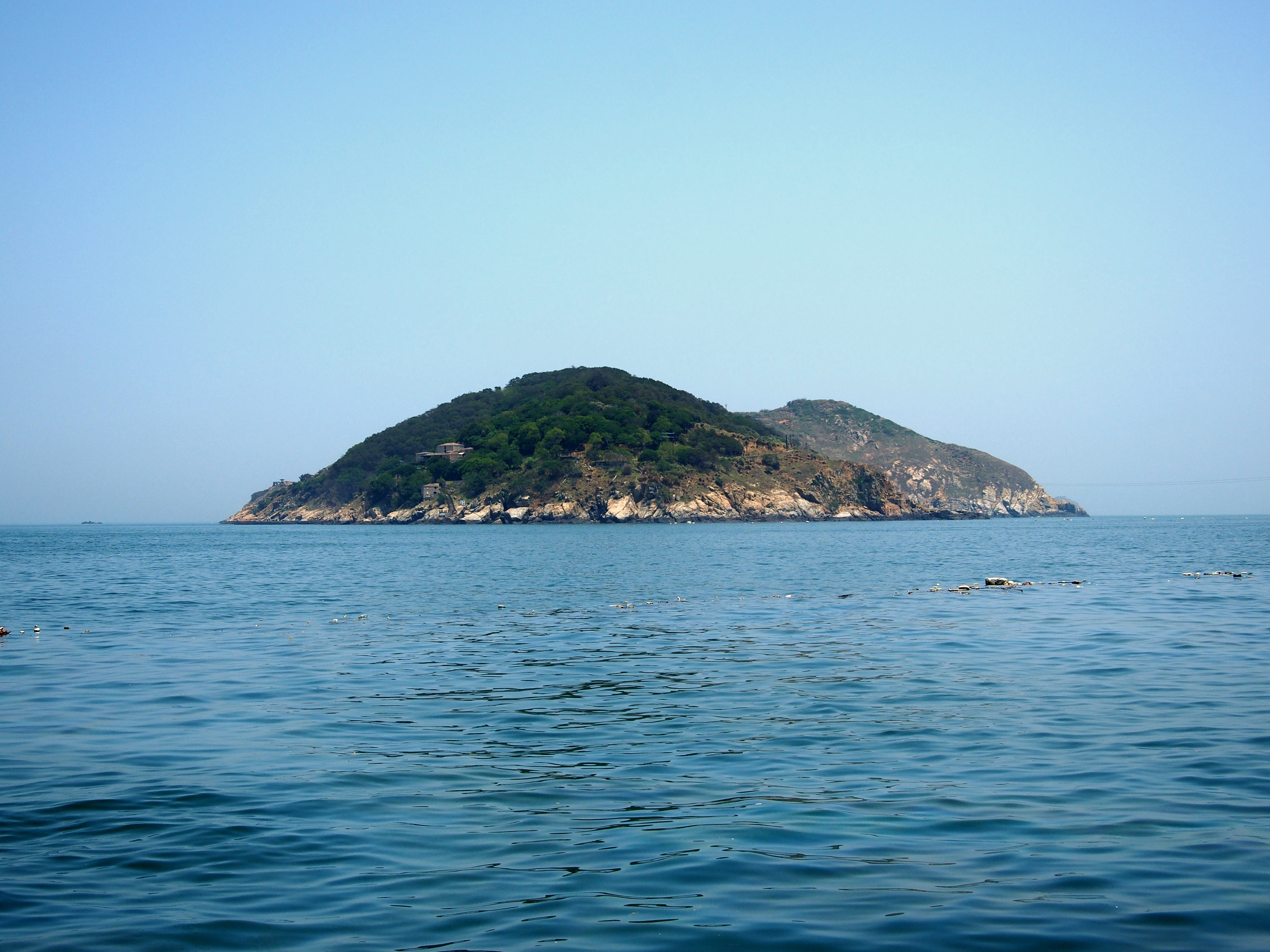 Daqiu Island - 2015.05